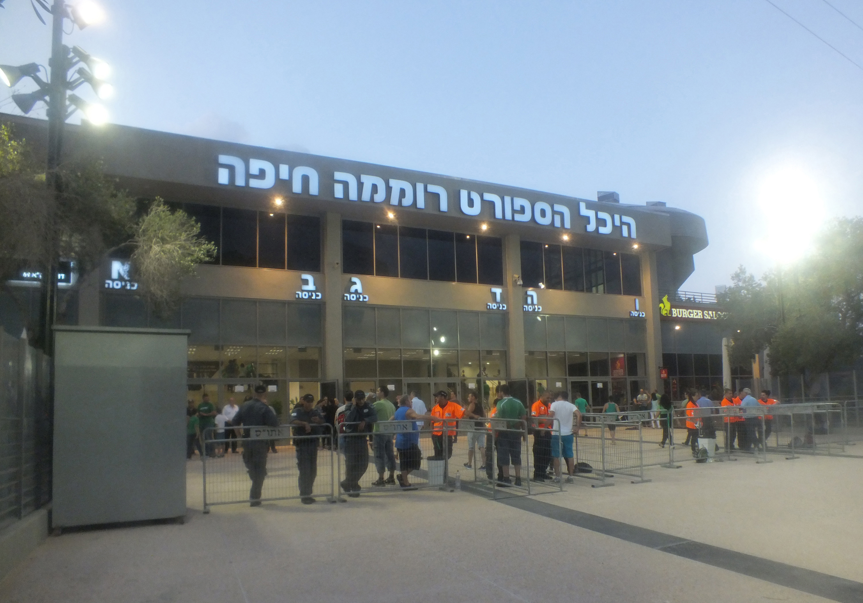 Façade of the renovated indoor-sports venue in Romema, Ahuza, at sunset.